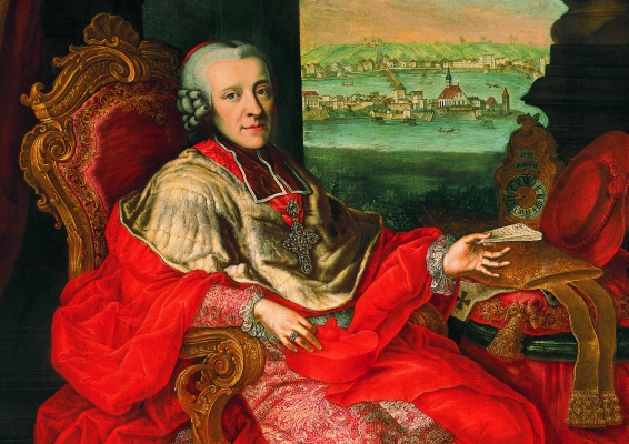 Portrait of Archbishop Hieronymus Colloredo 1732-1812